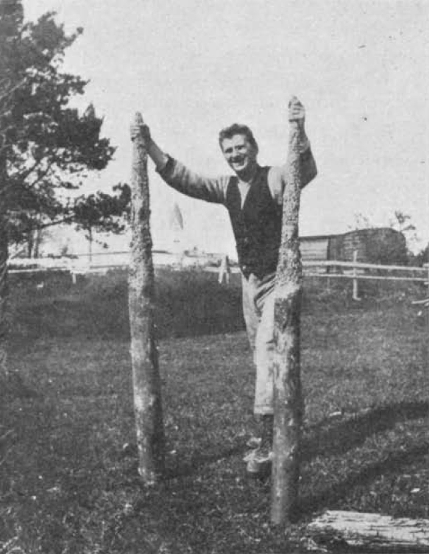 Two poles from the palisade retreived at the 1923 survey of the Bulverket in Lake Tingstäde, Gotland, Sweden.